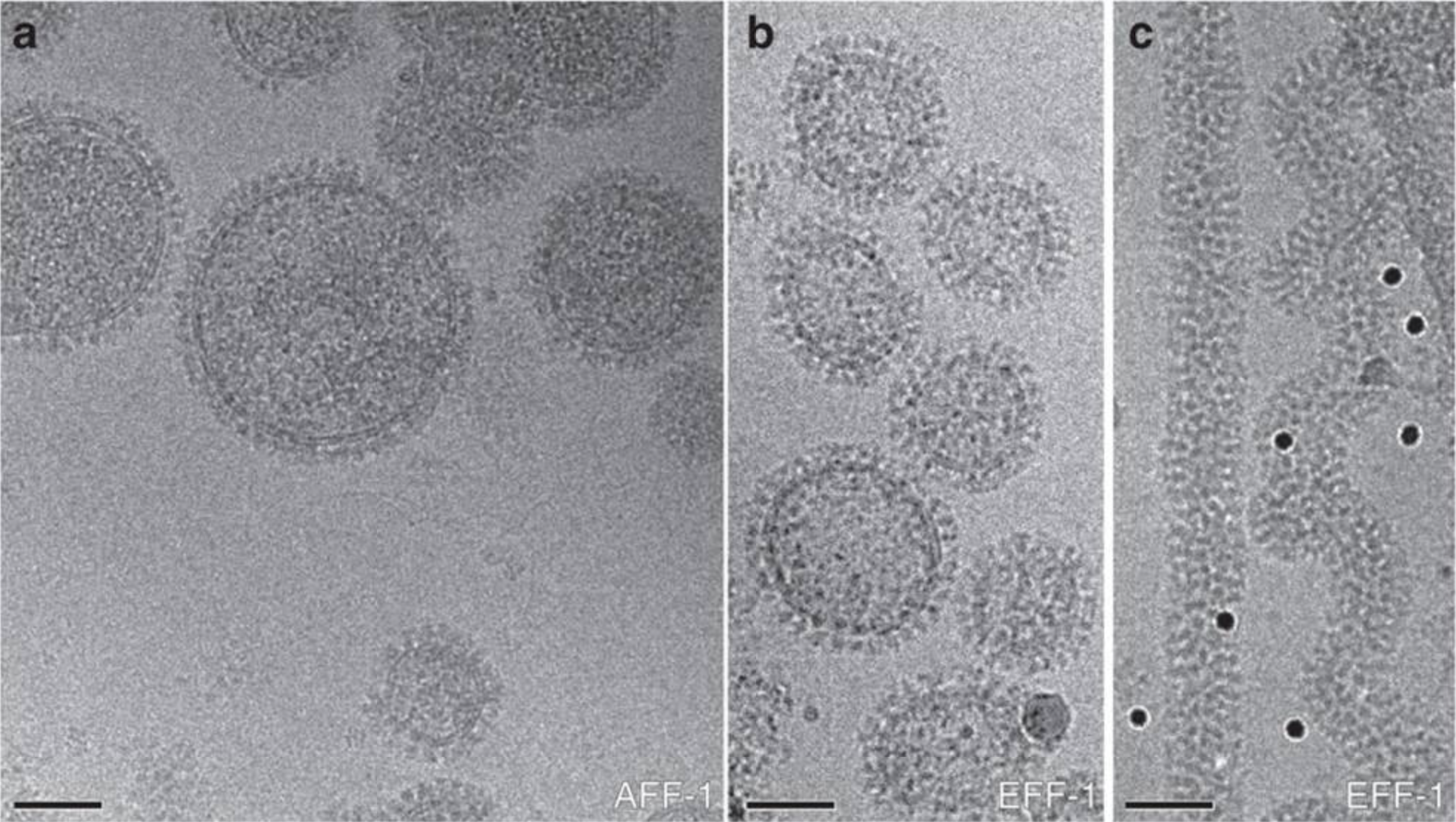 Shows hows EFF-1 and AFF-1 affect the morphology of vesicles during fusion.